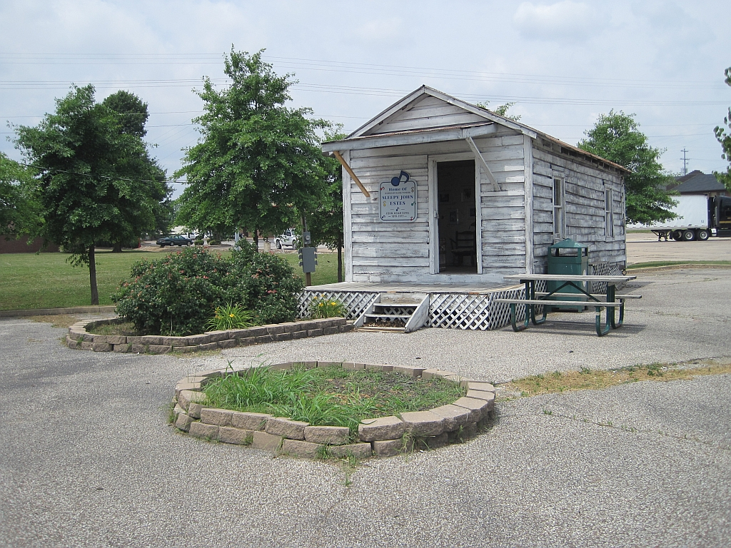 Sleepy John Estes House at the West Tennesse Delta Heritage Center, 121 Sunny Hill Cove in Brownsville, Tennessee